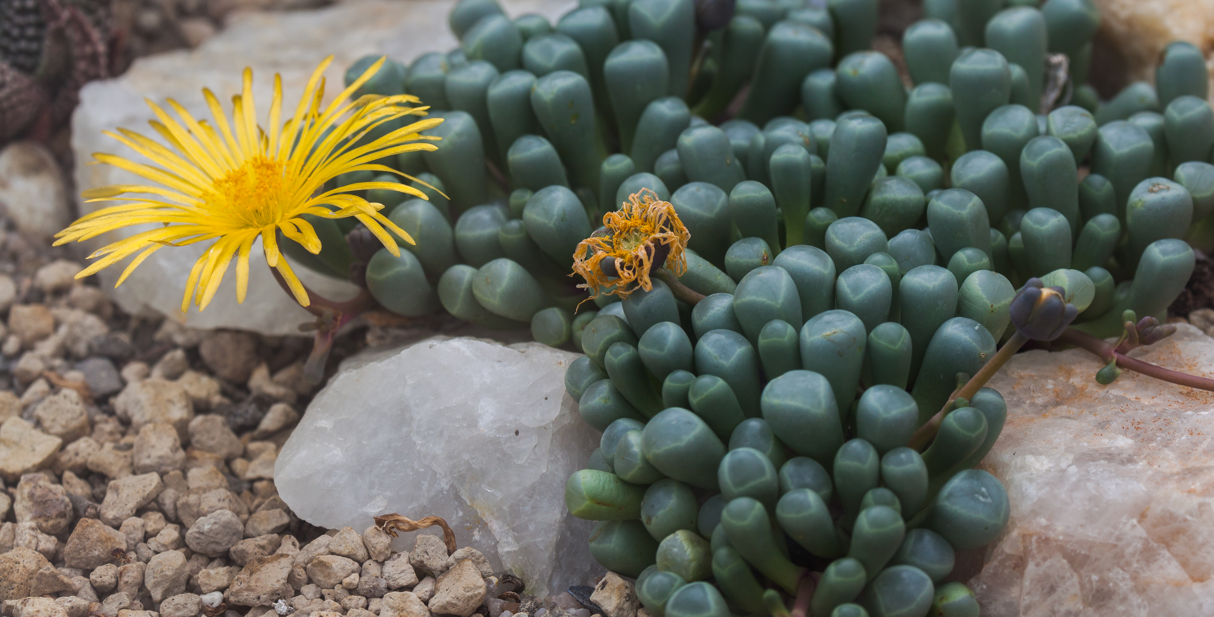 Fenestraria rhopalophylla, Munich Botanical Garden, Germany